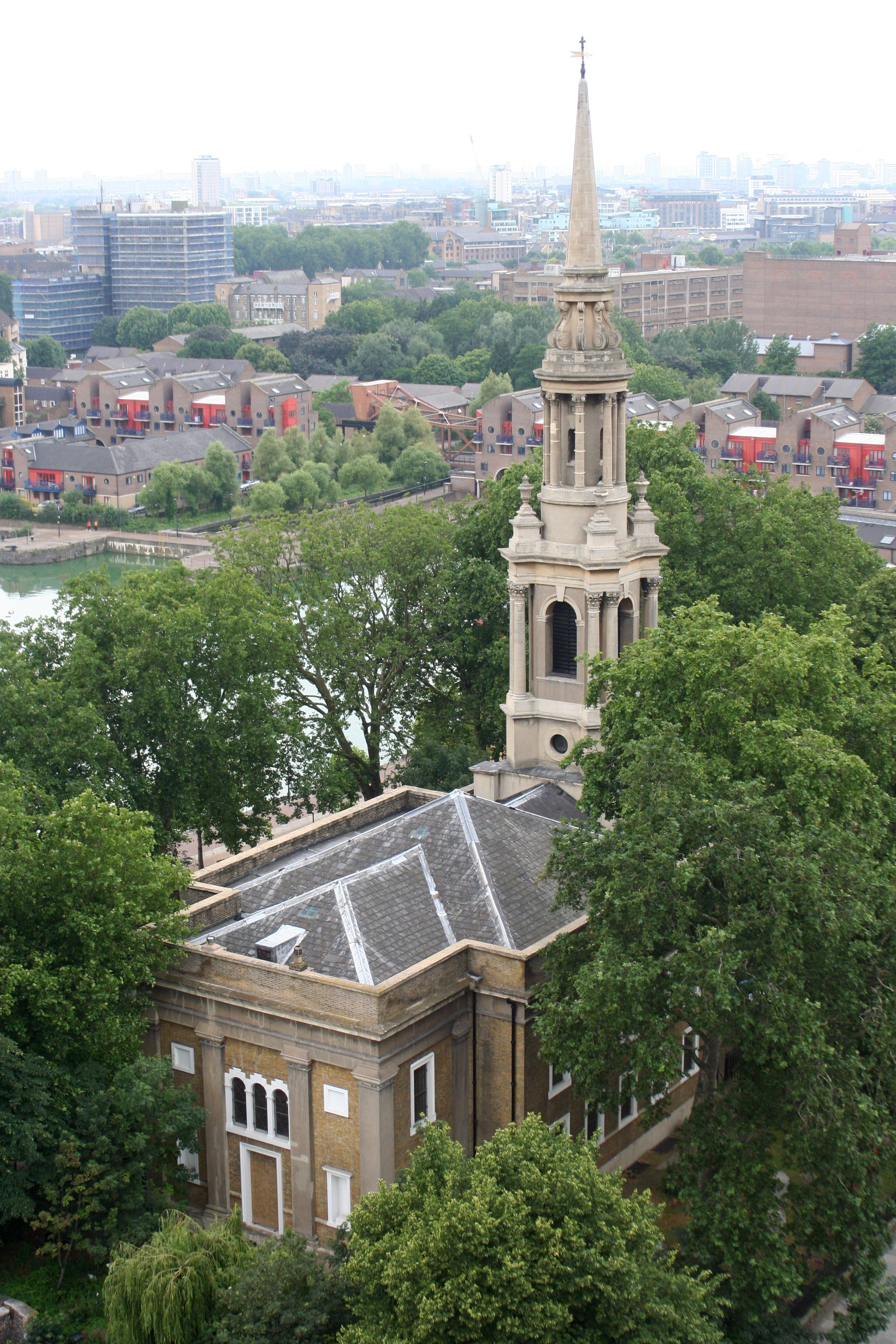 St Paul's Church, Shadwell, traditionally known as the "Church of Sea Captains".